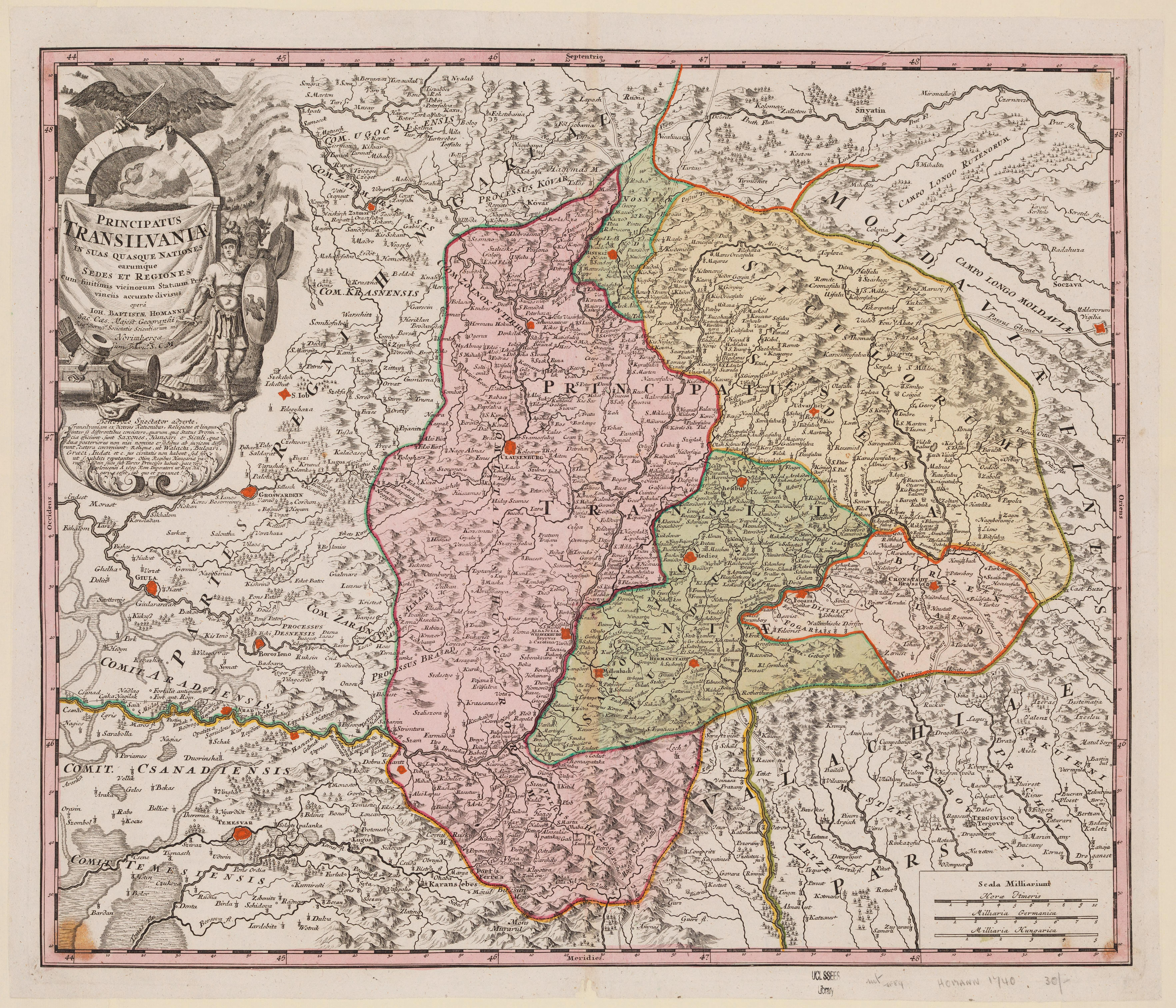 Principatus Transilvaniae in suas quasque nationes earumque sedes et regiones cum finitimis vicinorum Statuum Provinciis accurate divisus